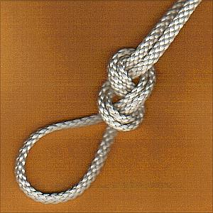 Created and uploaded on July 19, 2002 by User:Satsun.